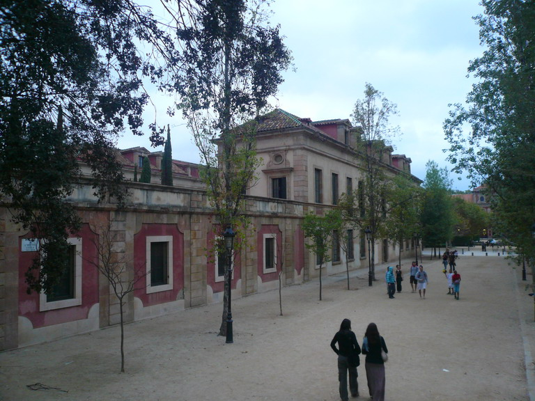 Palau del Governador (governor's palace), parc de la Ciutadella, Barcelona.